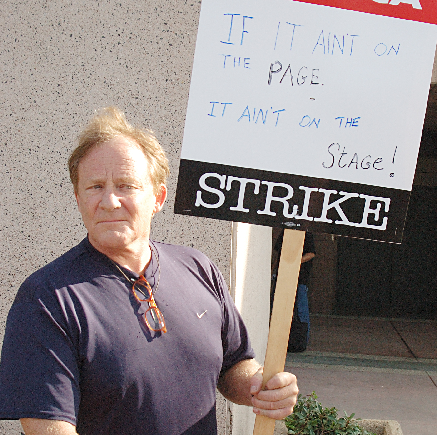 American actor and filmmaker Charles Haid during the 2007 WGA strike.